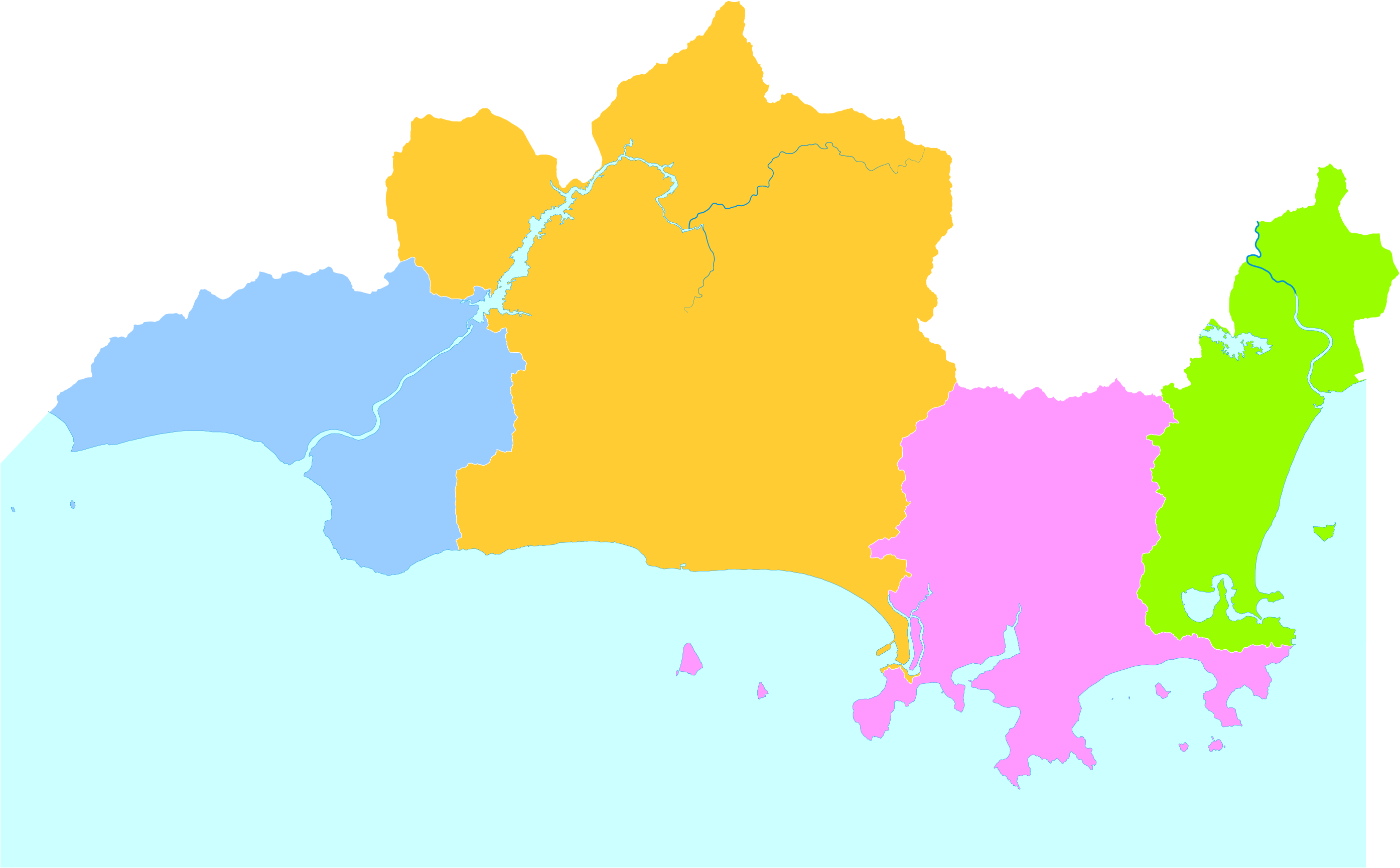 administrative districts of Sanya City, Hainan, China Haitang 海棠区 Jiyang 吉阳区 Tianya 天涯区 Yazhou 崖州区